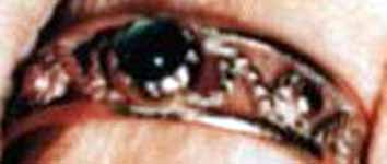 Ring worn by an unidentified murder victim found in Massachusetts in 1996.